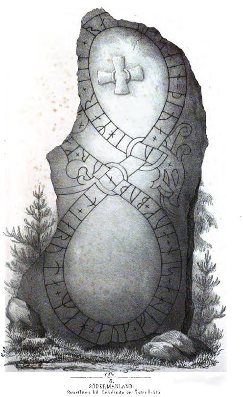 The runestone Sö 292. The inscription reads + uihmar + (l)et + ra(i)-- + saen + þina + at + iaruta + mah + auk + felha + sin + auk + buþur + ka...a +. In English "Vígmarr had this stone raised in memory of Jôrundi/Jôrundr, his kinsman-by-marriage and partner and the brother ..."